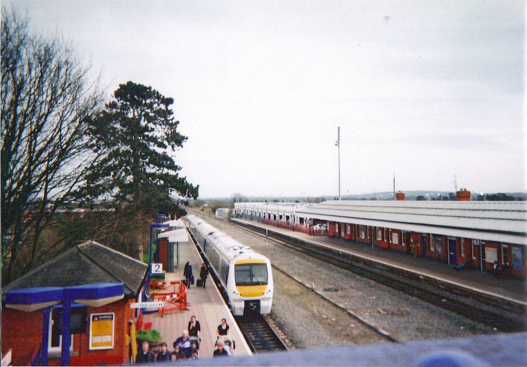 A view of Bicester North staion from the foot bridge in 2010.